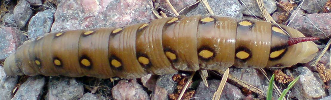 Larva of a Bedstraw Hawkmoth (Hyles gallii). Photograhed outside Uppsala, Sweden.